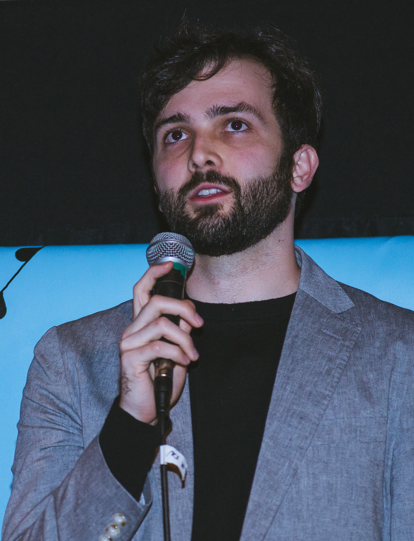 Sebastian Jones - EVERYBODY'S EVERYTHING Q&A at SXSW Austin, Texas